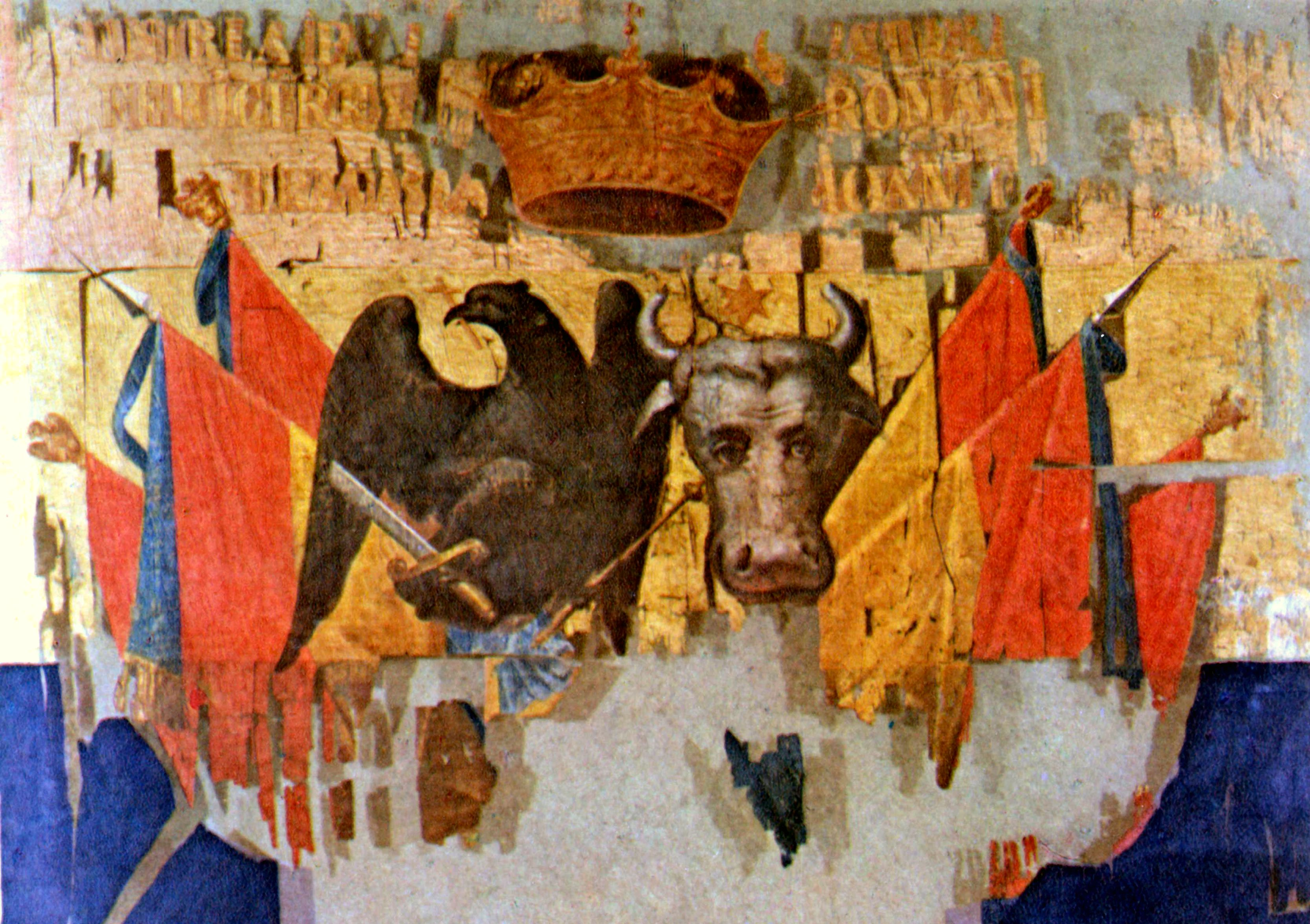 According to this is a Romanian Army Flag (1859 - 1861). According to Elena Pălănceanu and Cornelia Apostol this is a princial flag, dated 1862-1866. According to dr. Maria Ioniţă, this is the flag of the United Principalities of Wllachia and Moldavia, dated 1859. The inscription on the red stripe is: «UNIREA PRINCIPATELOR FERICIREA ROMÂNILOR. TRĂIASCĂ A. IOAN I» (en: "The union of the Principalities, the happines of the Romanians. Long live A. Ioan I")